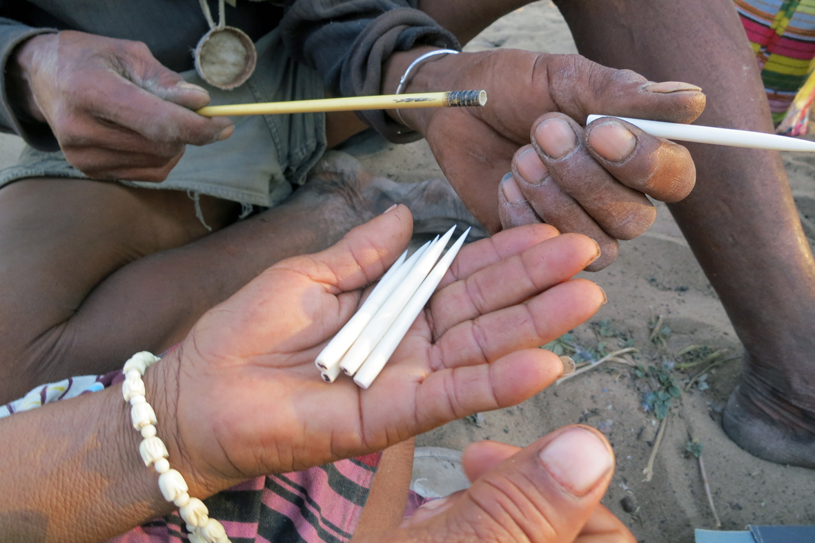 Archaeology